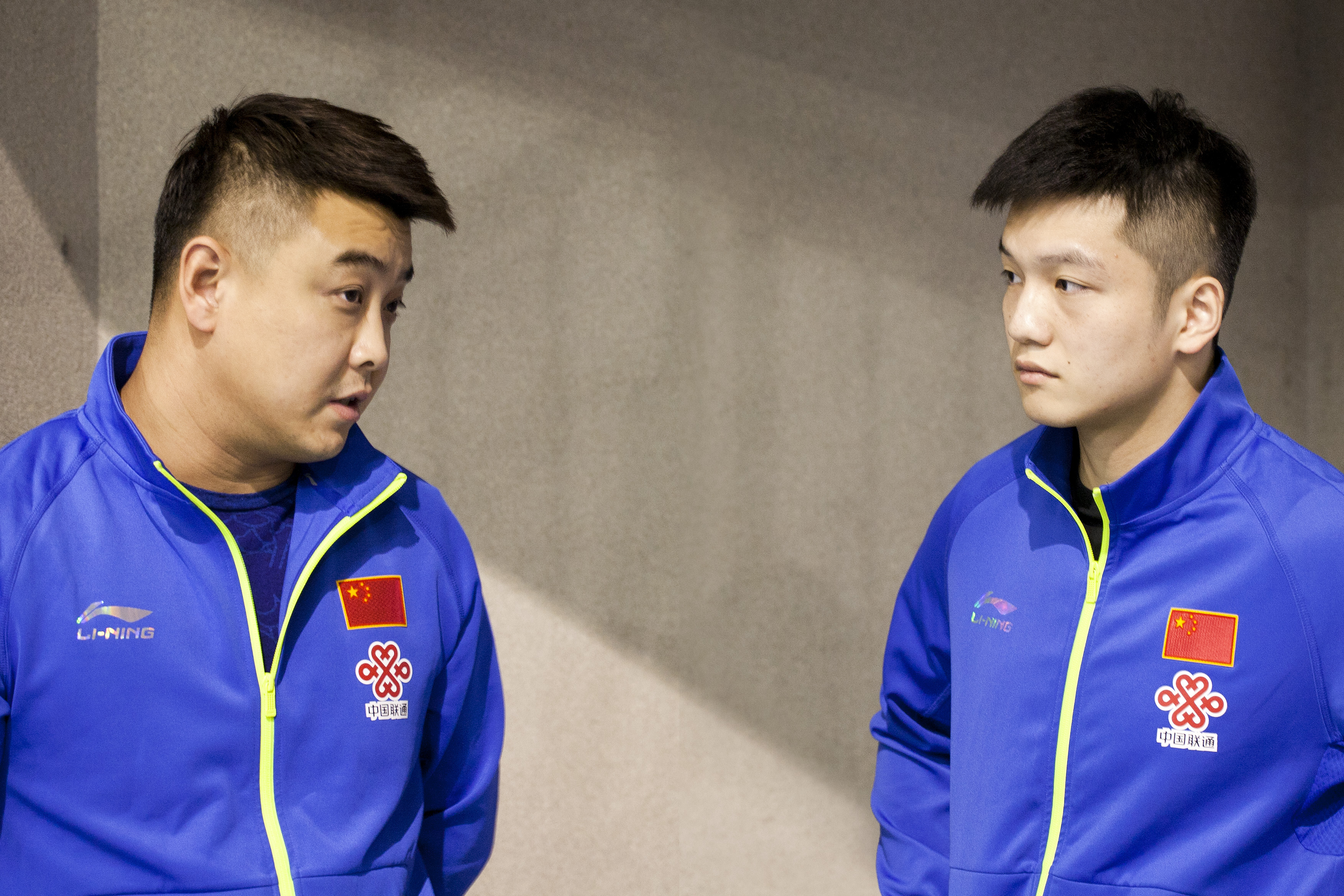 ITTF World Tour 2017 German Open, Magdeburg, Germany, 7 Nov 2017 - 12 Nov 2017, Wang Hao and Fan Zhendong